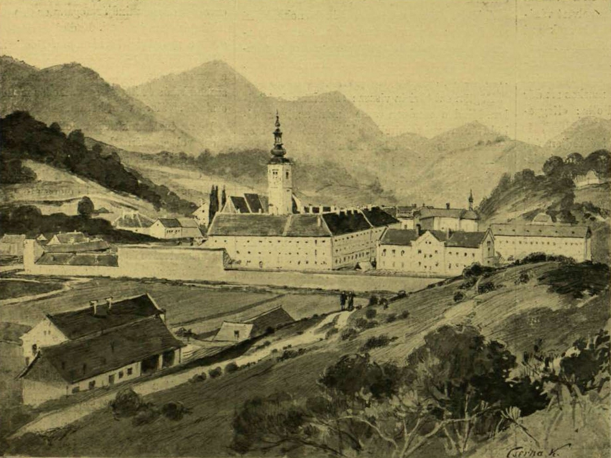 Lepoglava (town in Croatia) by Károly Cserna.